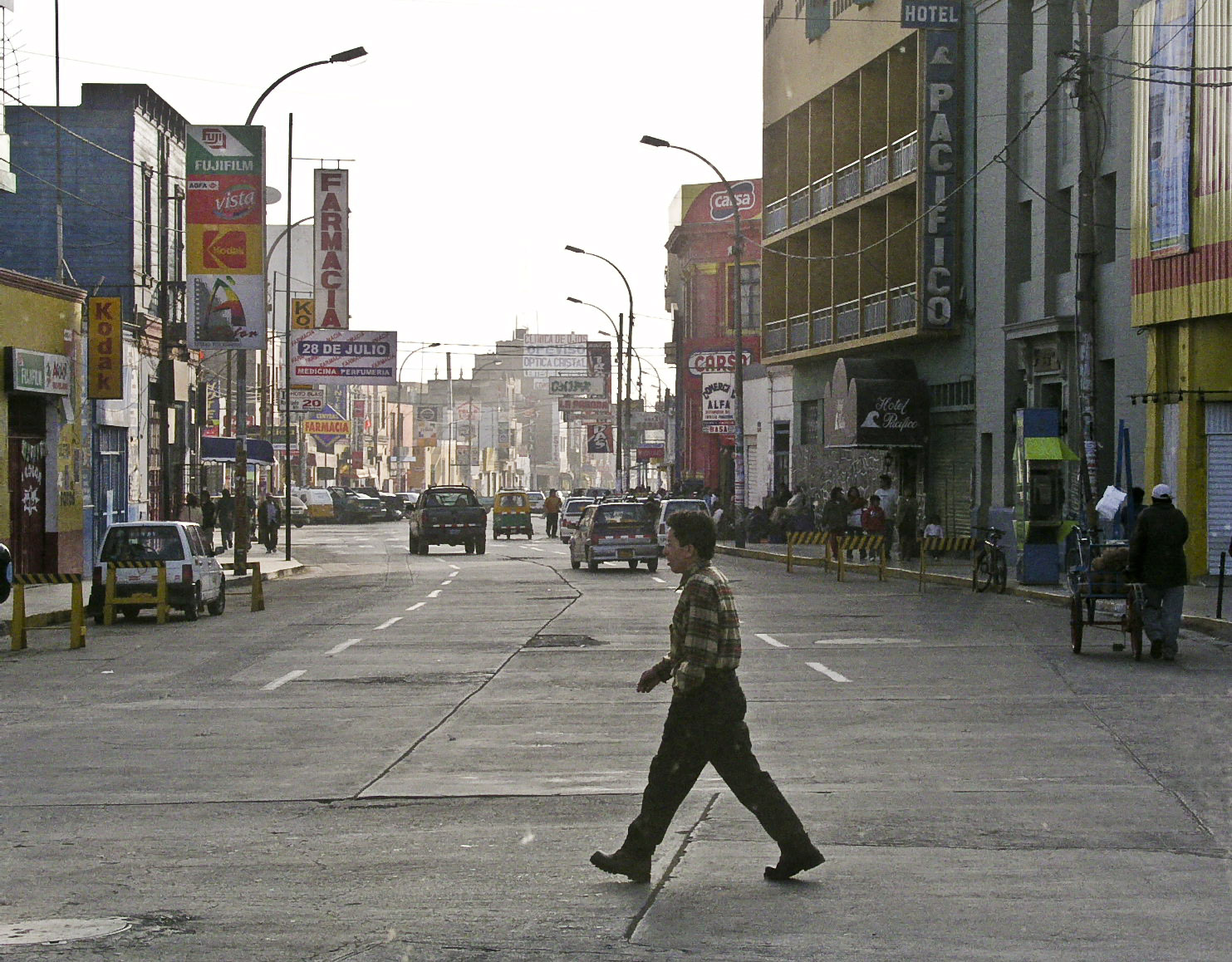 Huacho, Provincia de Huaura, Región de Lima, Peru. Street view.